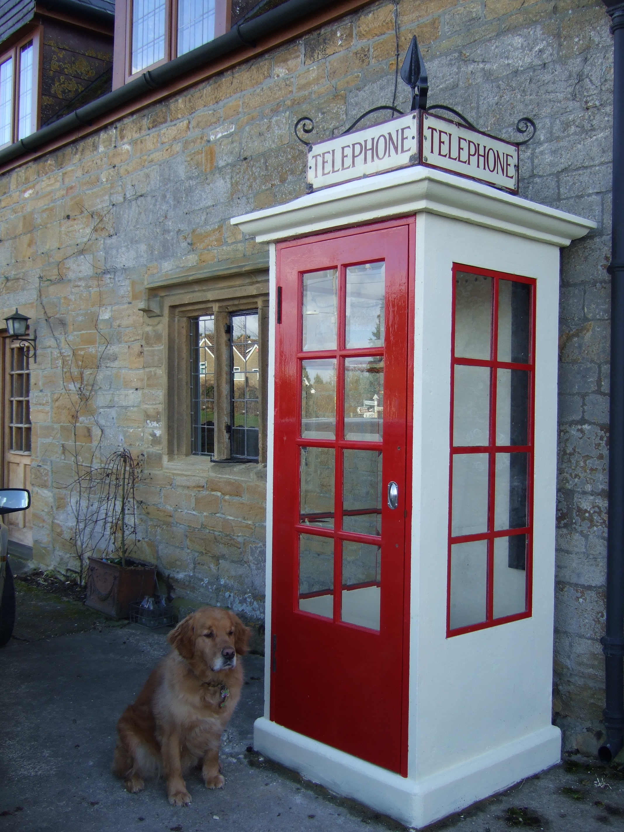 A replica K1 telephone kiosk outside the Old Post Office in the village of Tintinhull, Somerset, England.